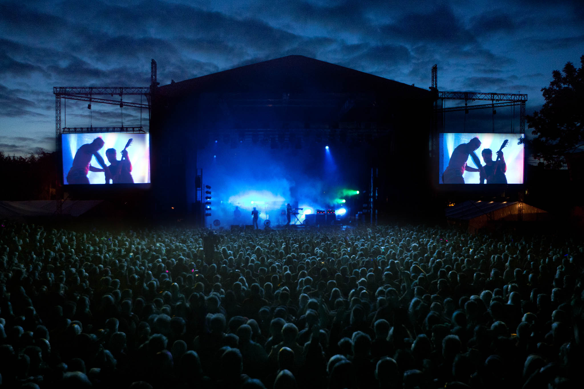 The Prodigy performing at Parkenfestivalen in Bodø 2012Norsk bokmål: The Prodigy opptrer på Parkenfestivalen 2012